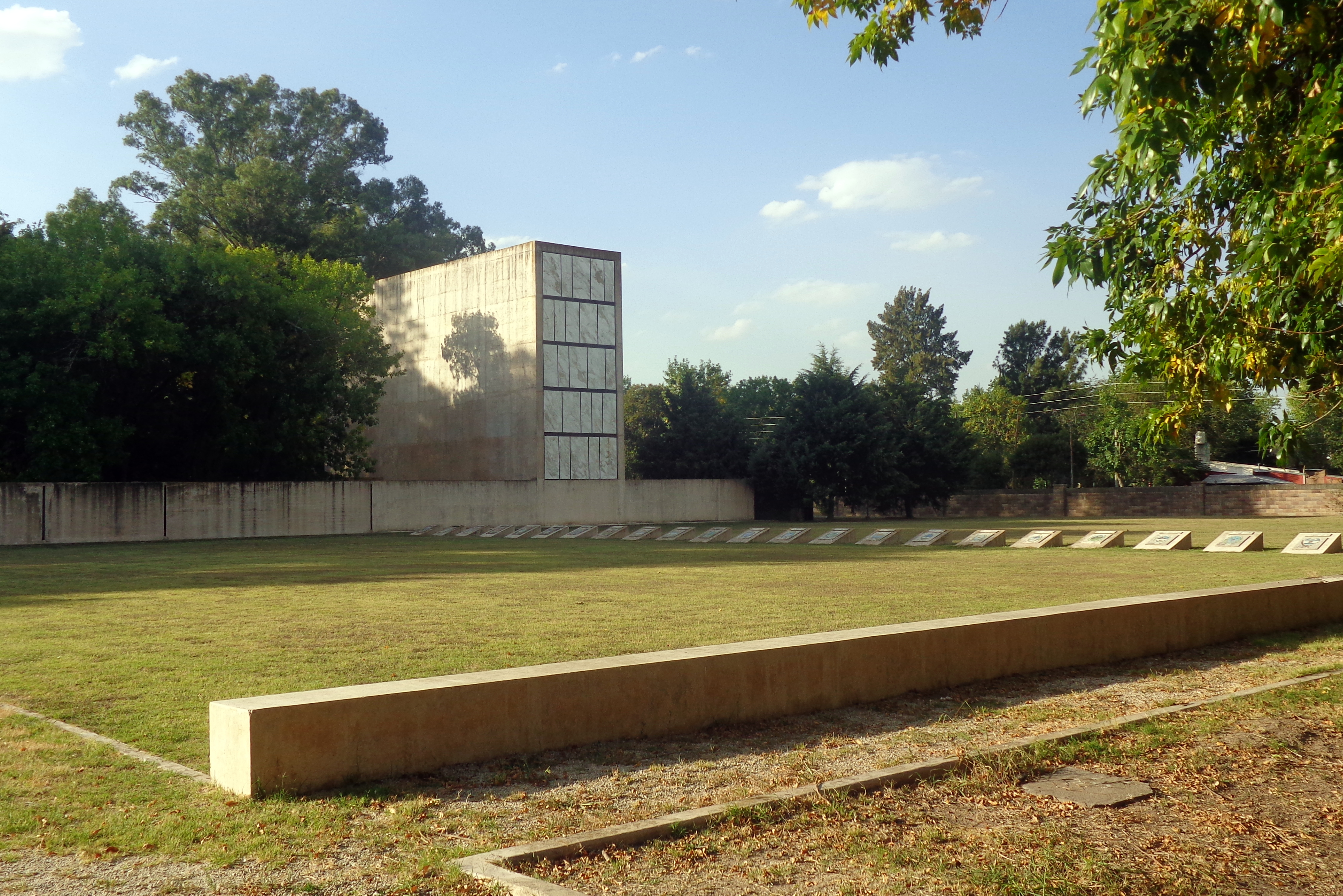 Mausoleum in which the grave of Juan Domingo Perón is located, Museo Histórico Provincial 17 de Octubre, in Quinta San Vicente, Province of Buenos Aires, Argentina.